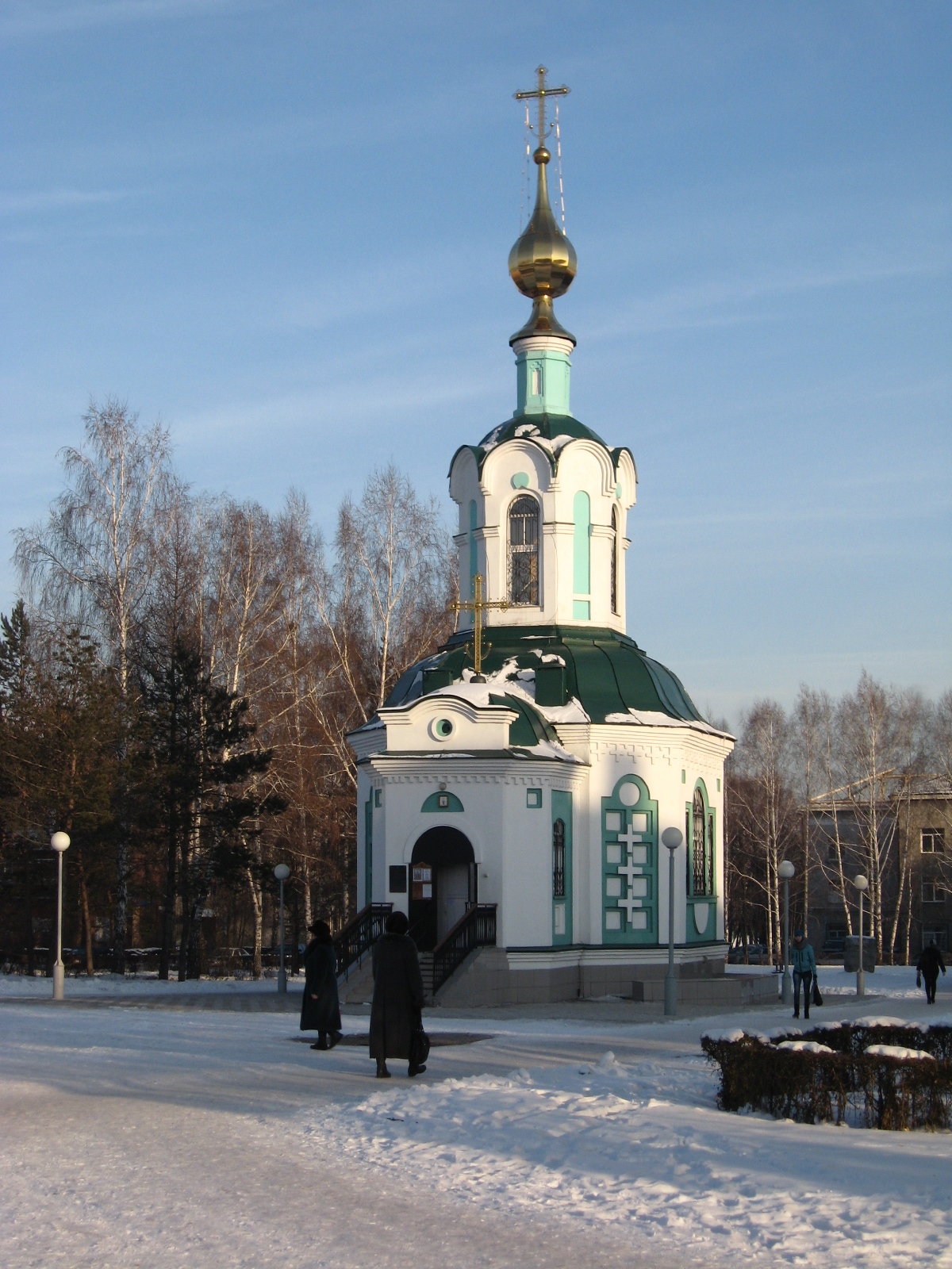 Chapel of the Intercession of the Mother of God in Belovo Kemerovo region